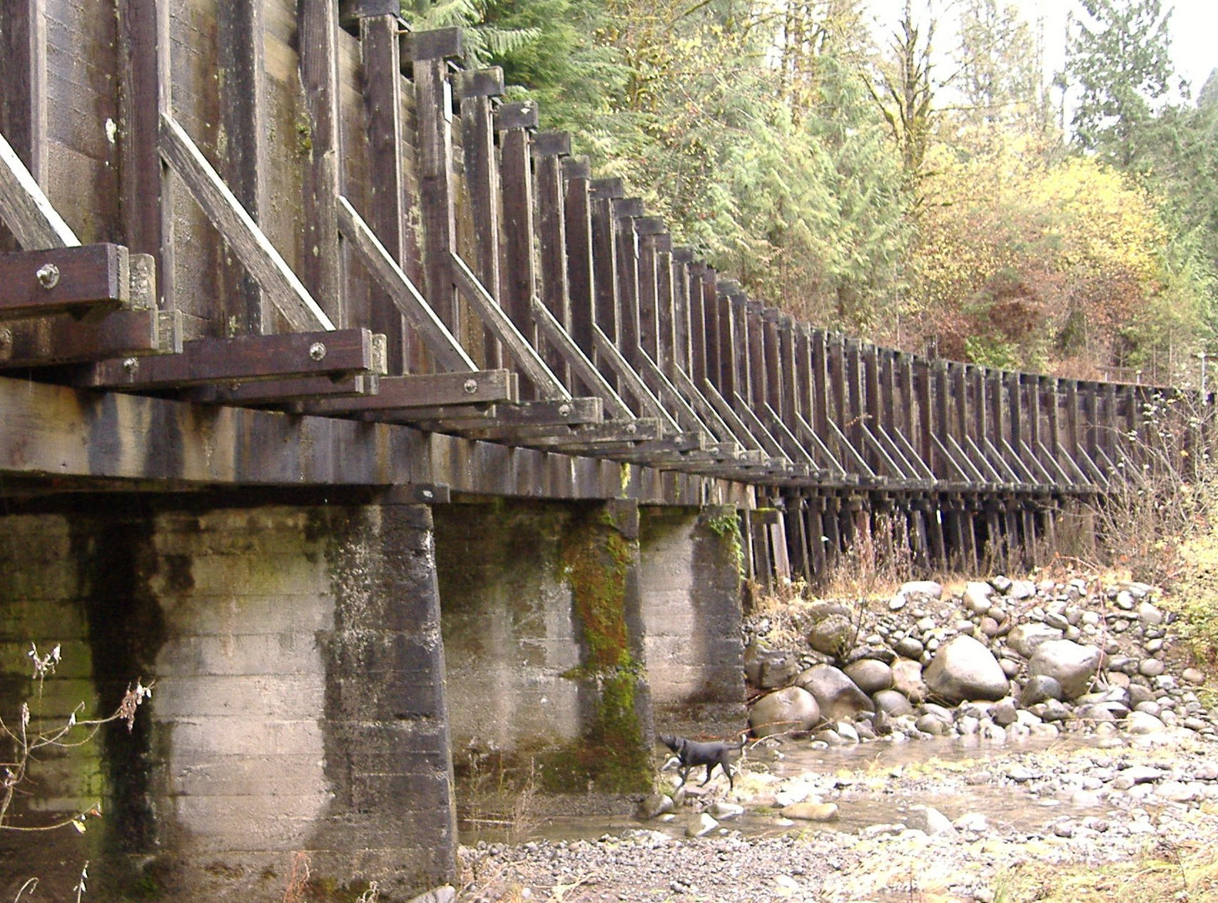 Wood box flume over the abandoned Little Sandy river bed